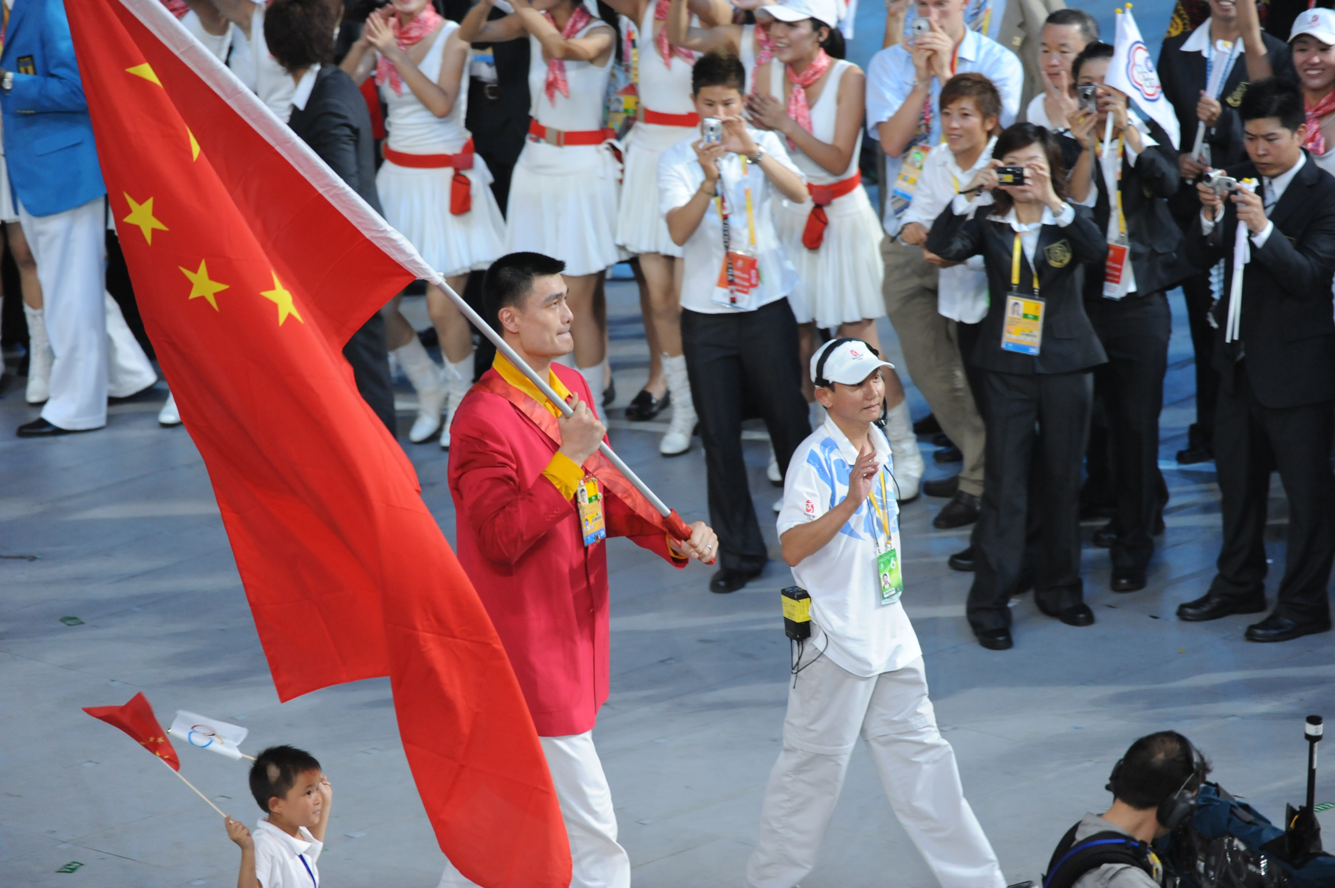 Yao Ming leading the Chinese athletes into the 2008 Summer Olympics opening ceremony